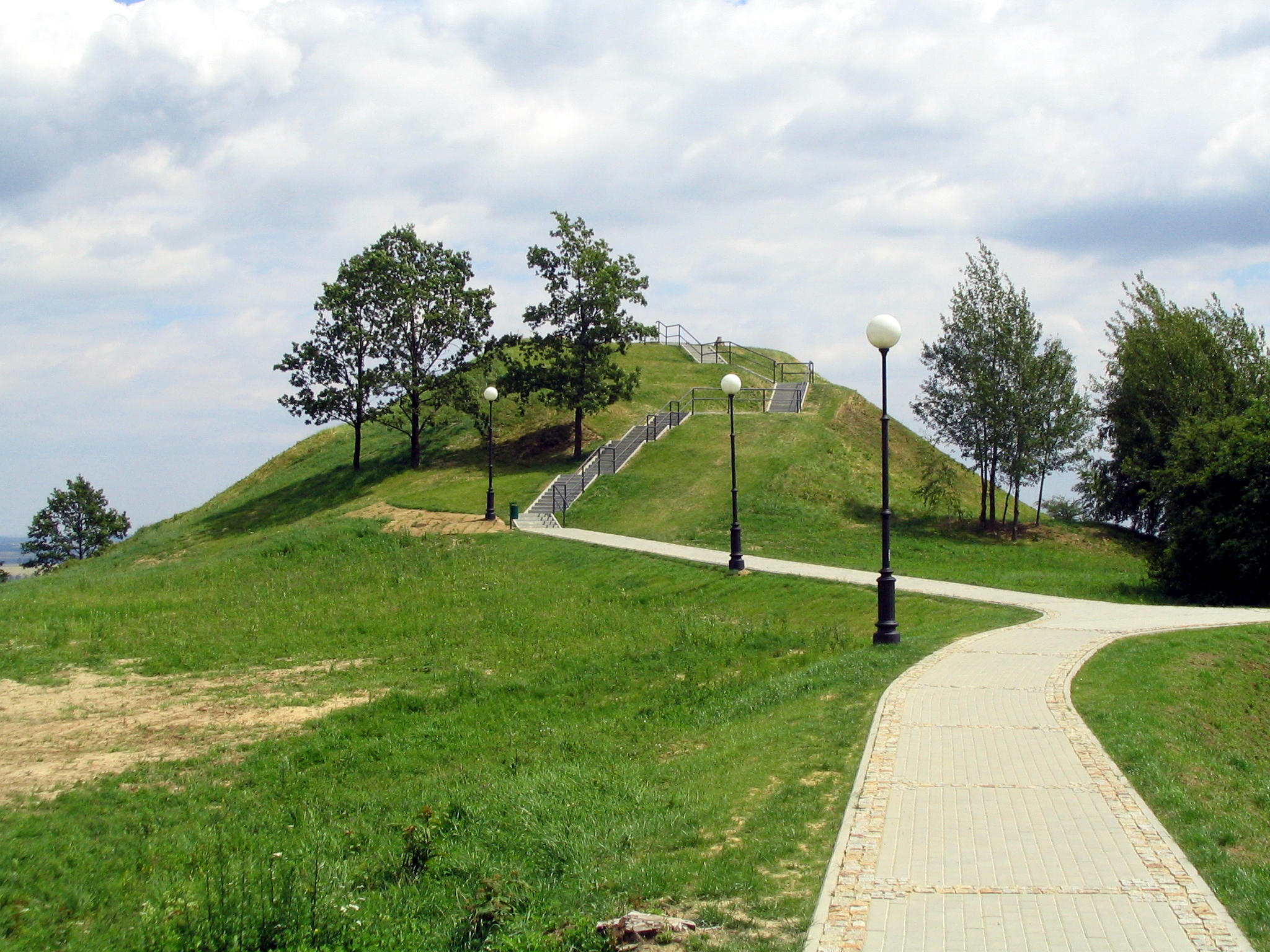 Tatar Mound in Przemyśl, Poland